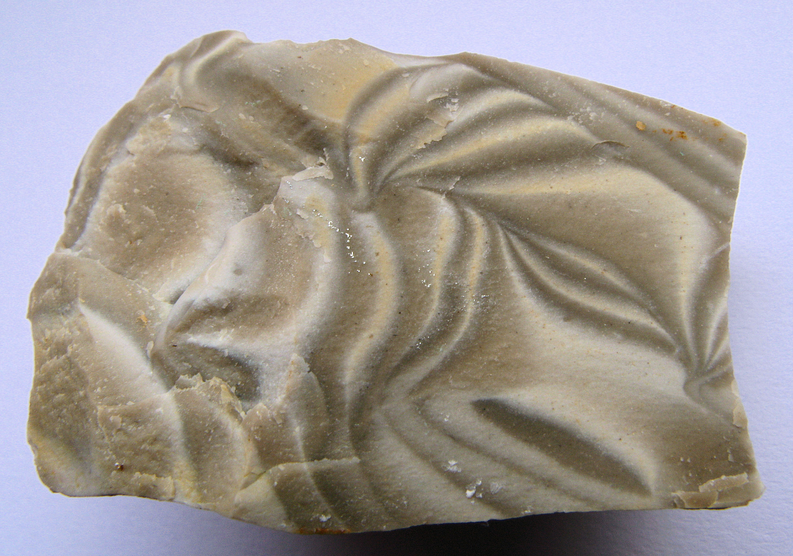 Flint(stone) from Poland